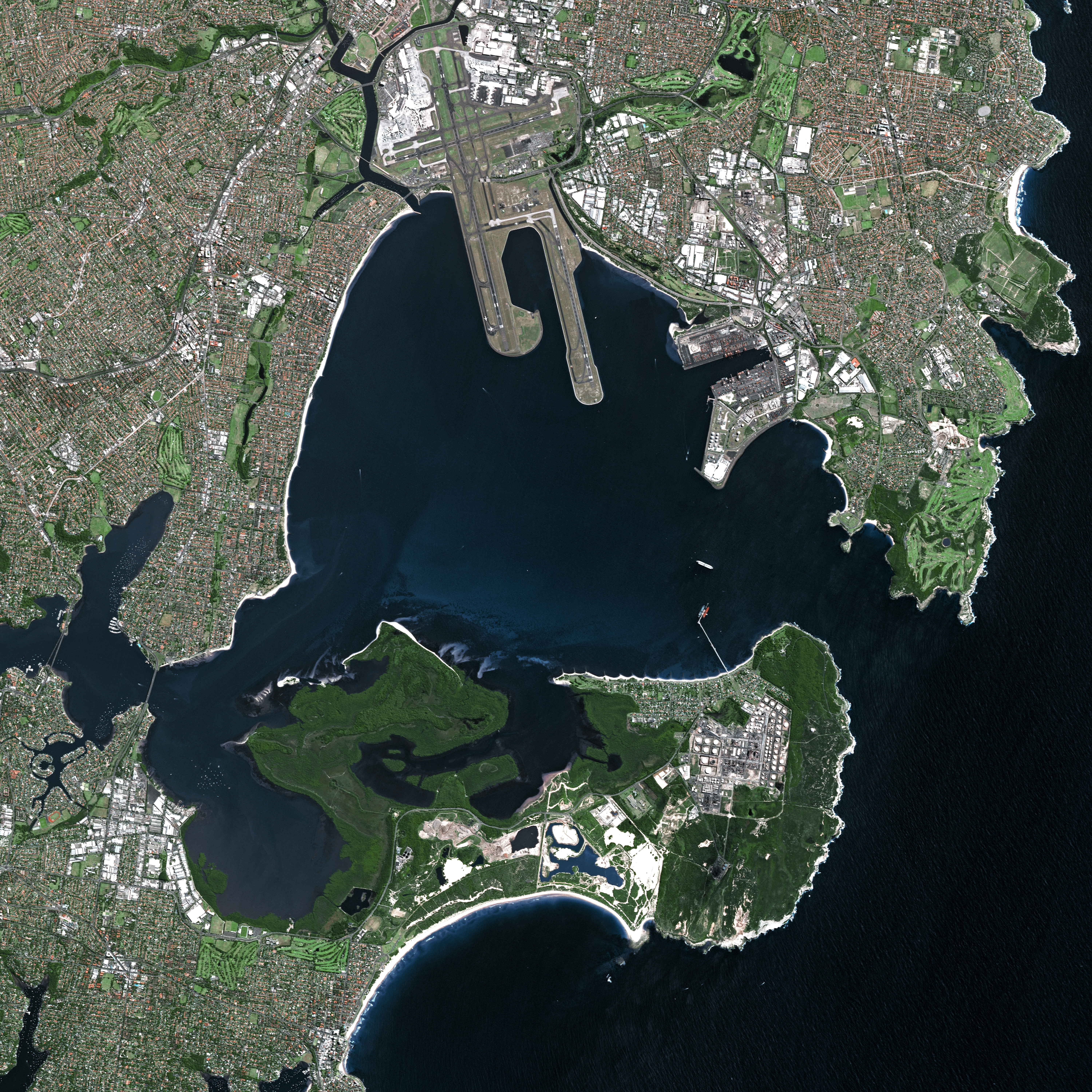 Sydney by SPOT Satellite